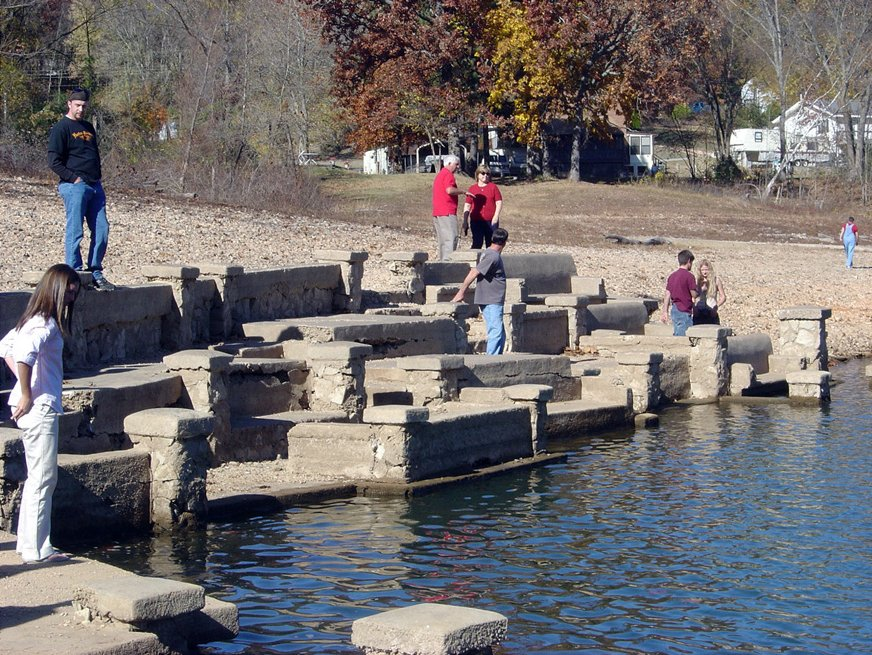 The old amphitheater in Monte Ne surfaces during a long dry spell.